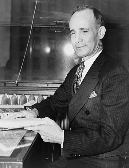 Napoleon Hill, American self-help writer, attorney and journalist, seated in a chair holding his book "Think and Grow Rich". (three-quarter length portrait)